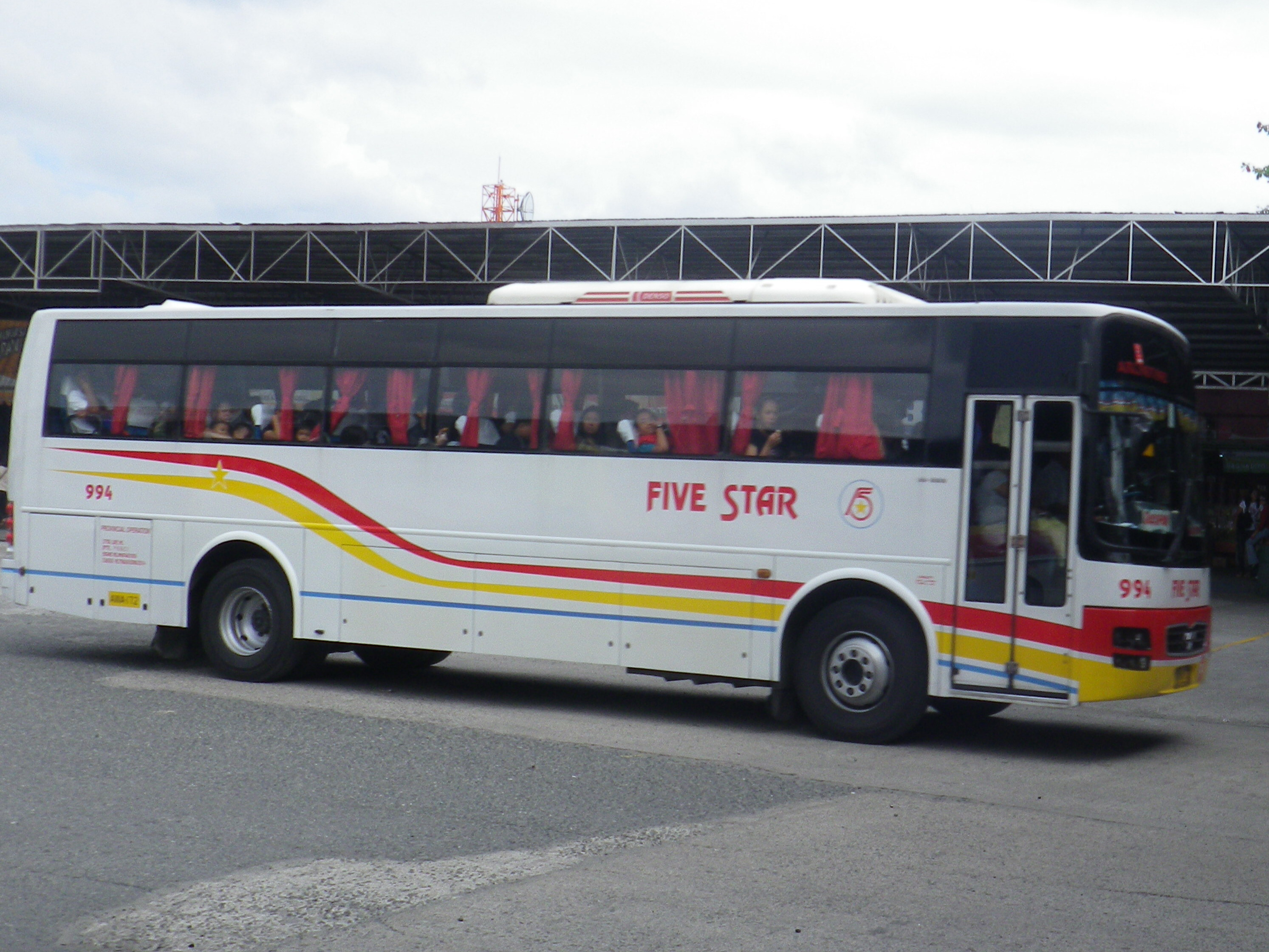 Five Star air-conditioned bus